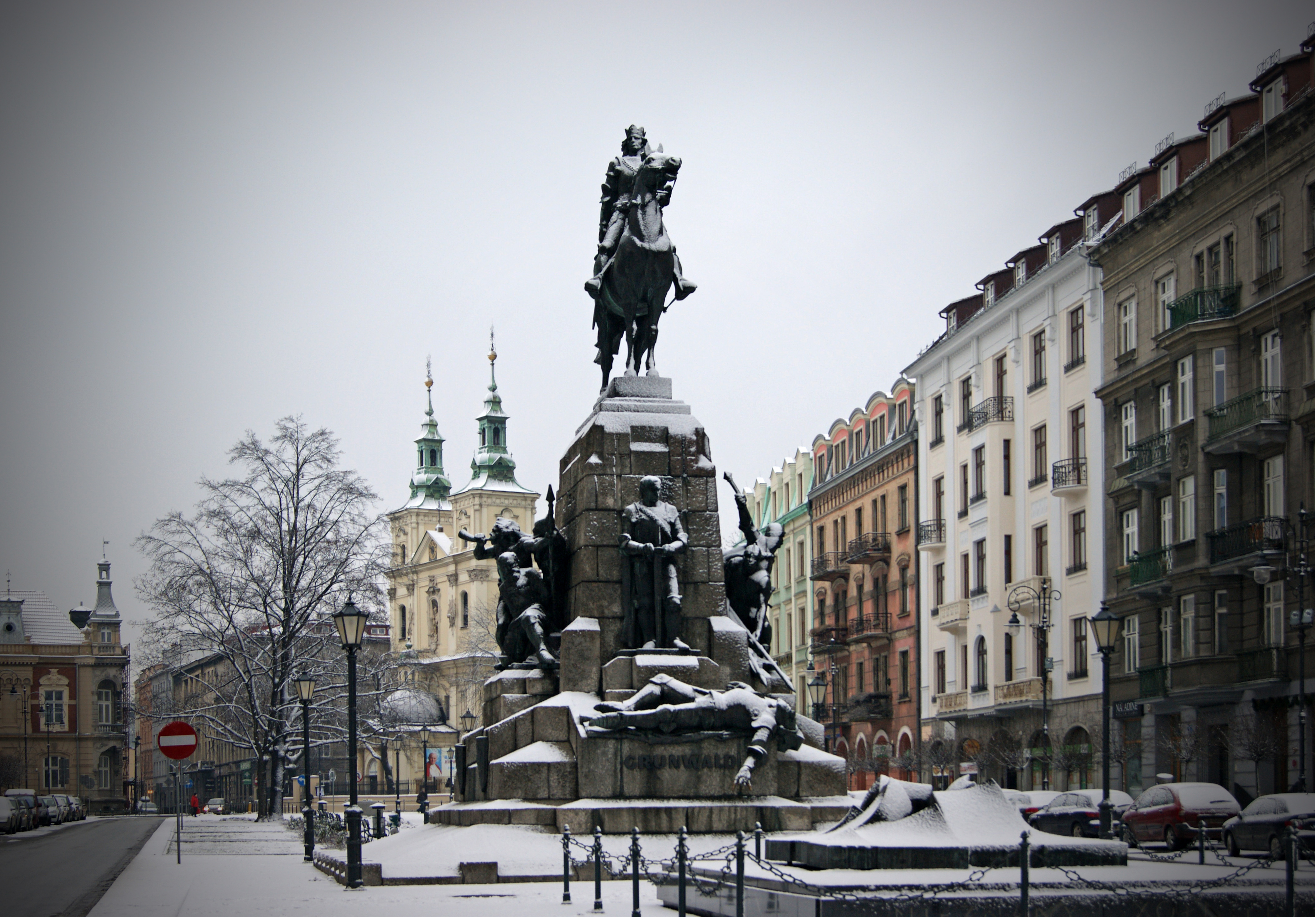 Battle of Grunwald monument, Matejko Square, Krakow, Poland